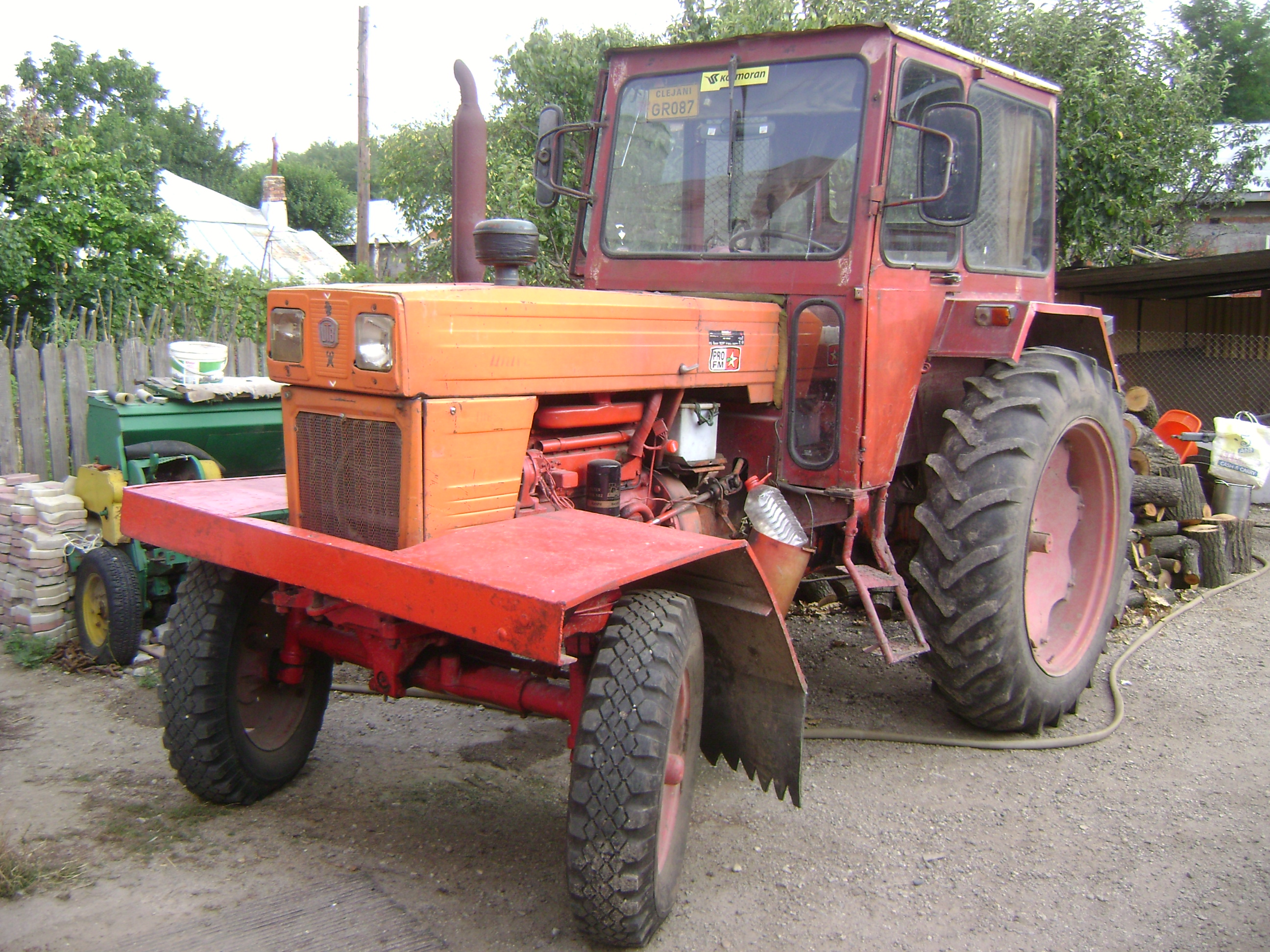 UTB Universal 650 - a 1996 Romanian (Uzina Tractorul Brașov) built tractor still in good shape after 14 years of duty. Displacement: 4.7L; Power:65HP; Torque: 289Nm; Weight: 3380kg